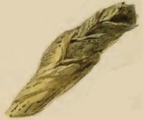 Stainton’s Natural History of the Tineina (1855–1873): Coleophora genistae larval case